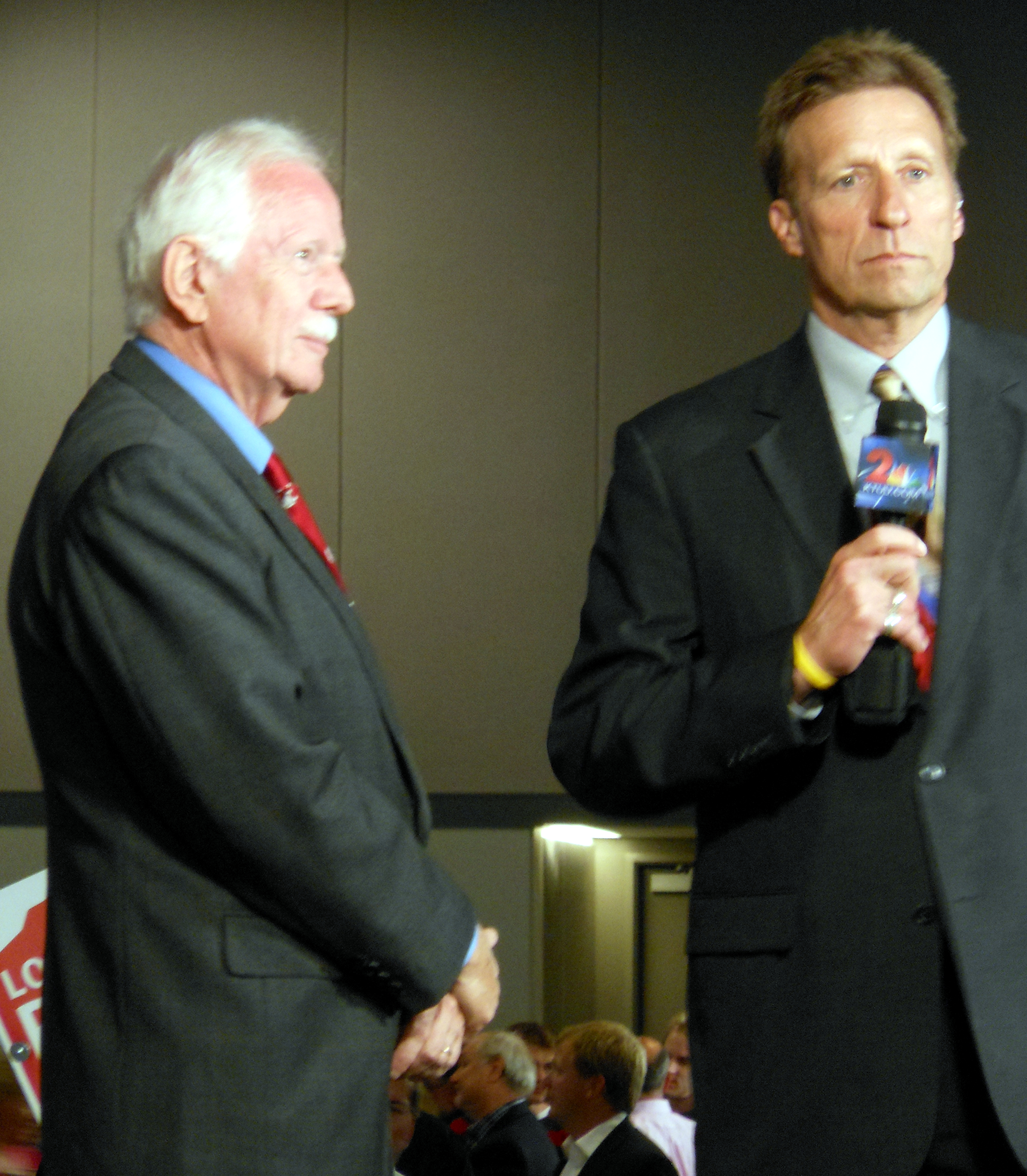 At right, holding the microphone, is Steve MacDonald. He worked as a television reporter and anchor in Anchorage, Alaska from 1982 until his retirement in December 2016, at first at KTVA but mostly at KTUU. He is standing by, waiting for his cue that he's live on the air, with Frank Robert "Bob" Bell. Bell is a businessman, engineer and politician, who has also written several humor-tinged books on the Alaskan outdoors. Bell represented south Anchorage on the Anchorage Assembly, the community's borough assembly/city council, and on this occasion was challenging Hollis French for a seat in the Alaska Senate.